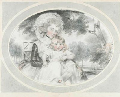 Portrait Hester, Lady Lushington, spouse of Sir Stephen Lushington, 1st Baronet (1744–1807), with her young son Stephen Lushington.